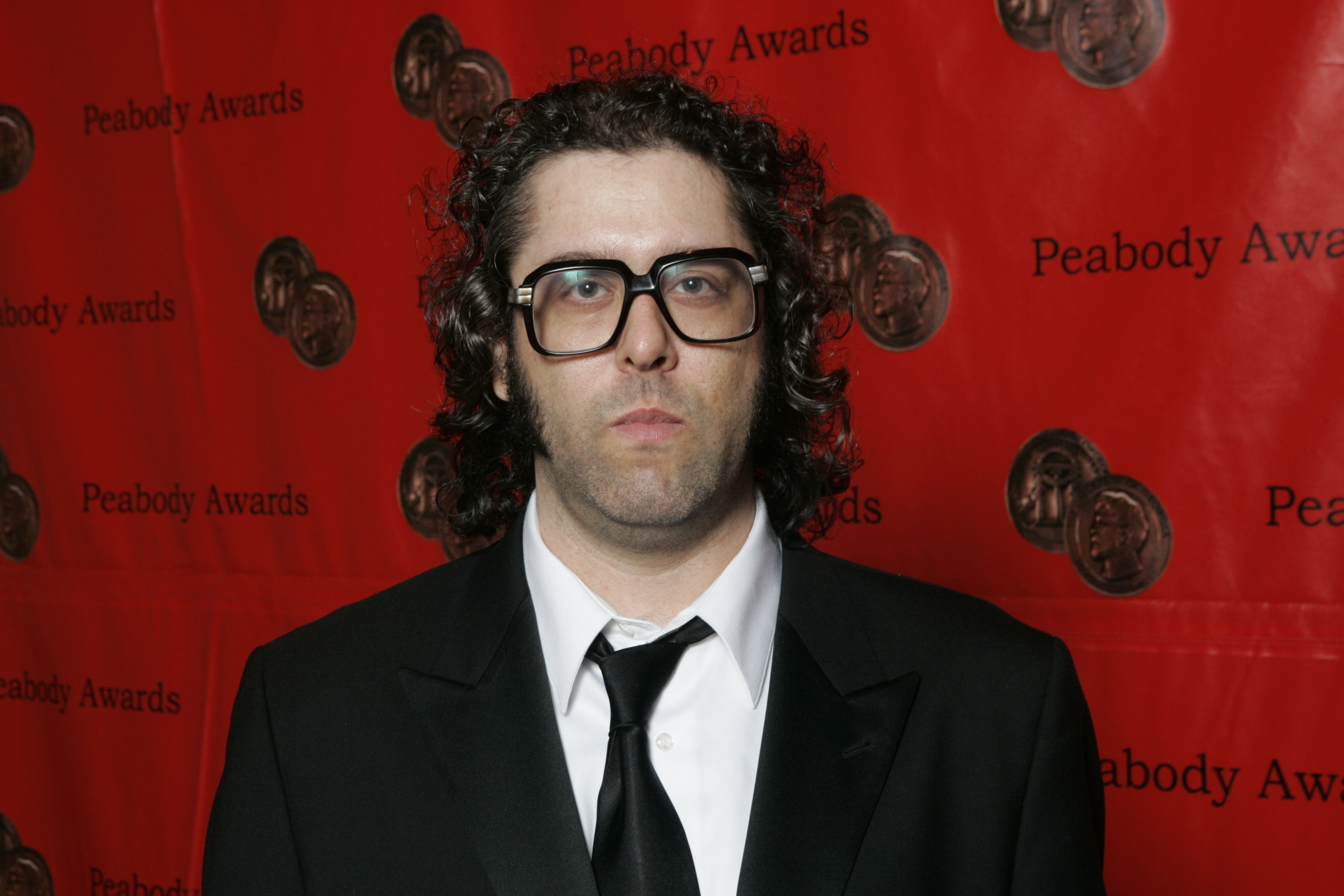 Judah Friedlander 67th Annual Peabody Awards Luncheon Waldorf=Astoria Hotel New York, NY USA June 16, 2008